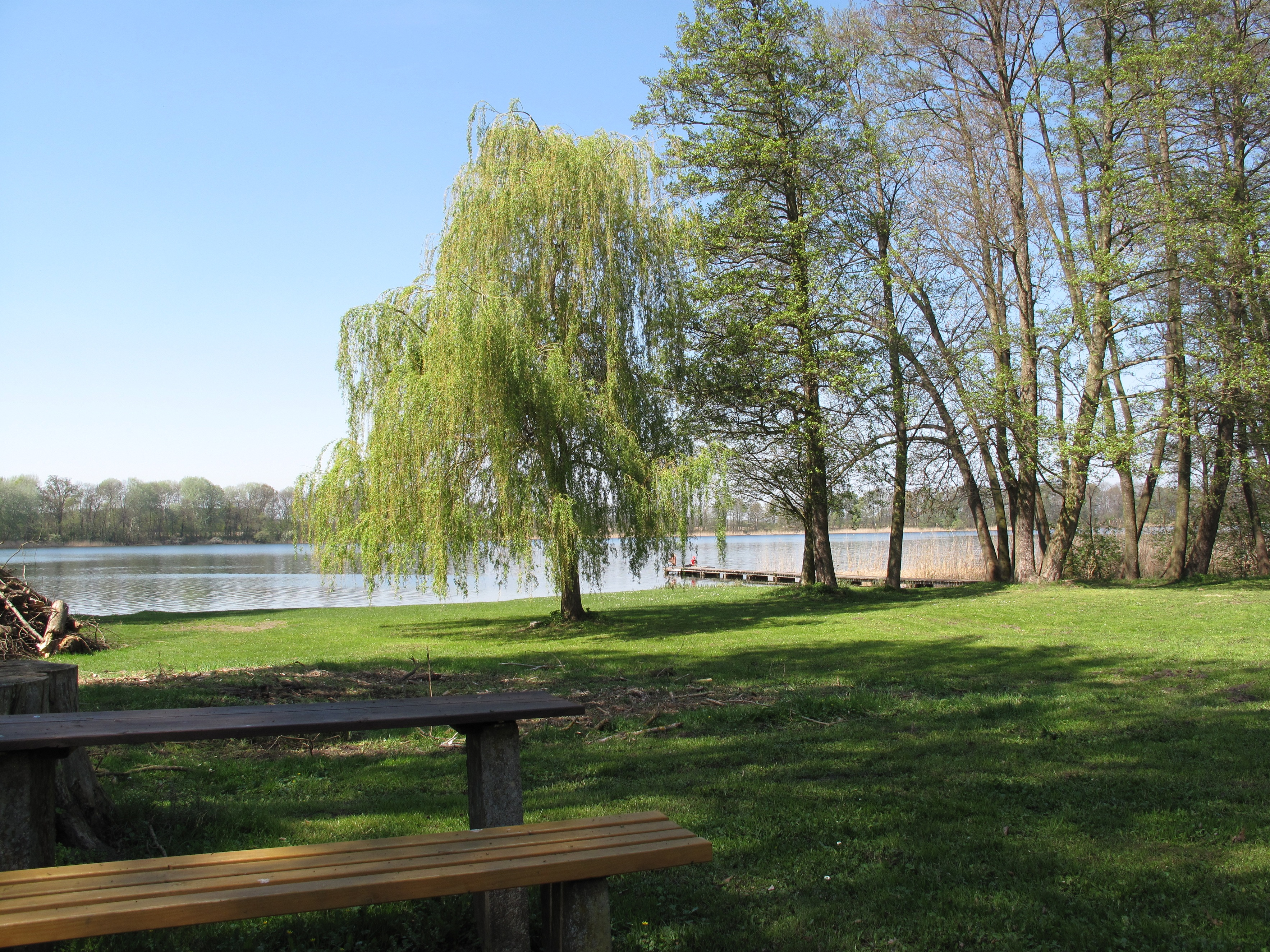 The Klostersee is a lake in Altfriedland, a village of the municipality Neuhardenberg in the District Märkisch-Oderland, Brandenburg, Germany. The lake covers 55 hectare. Its named because the former Cistercian-Kloster Friedland (Nunnery) on its eastern bank, which owned the lake in the Middle Ages.